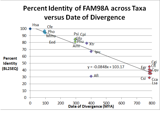 A graph of percent identity of FAM98A in animals compared to the human FAM98A protein versus time of divergence the animal and human.